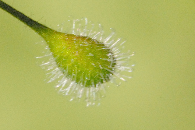 Circaea lutetiana from Commanster, Belgian High Ardennes .